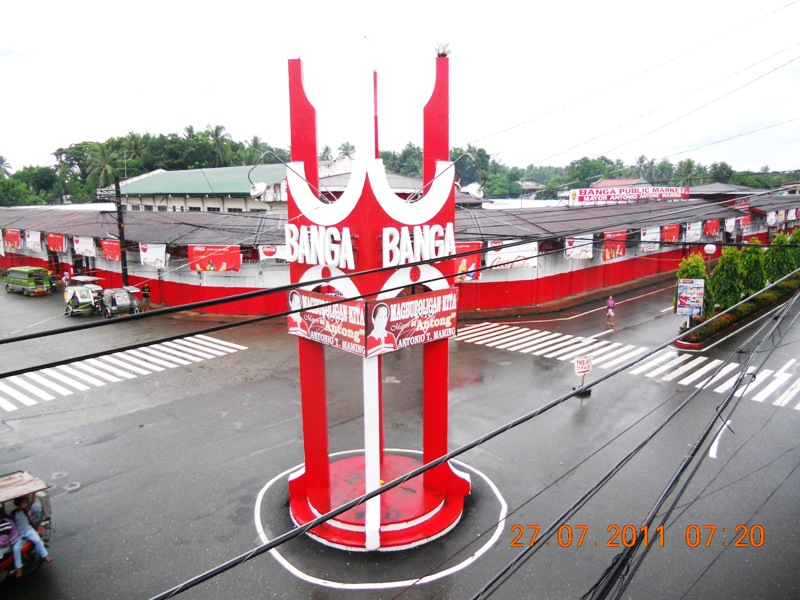 The Banga Town roundabout